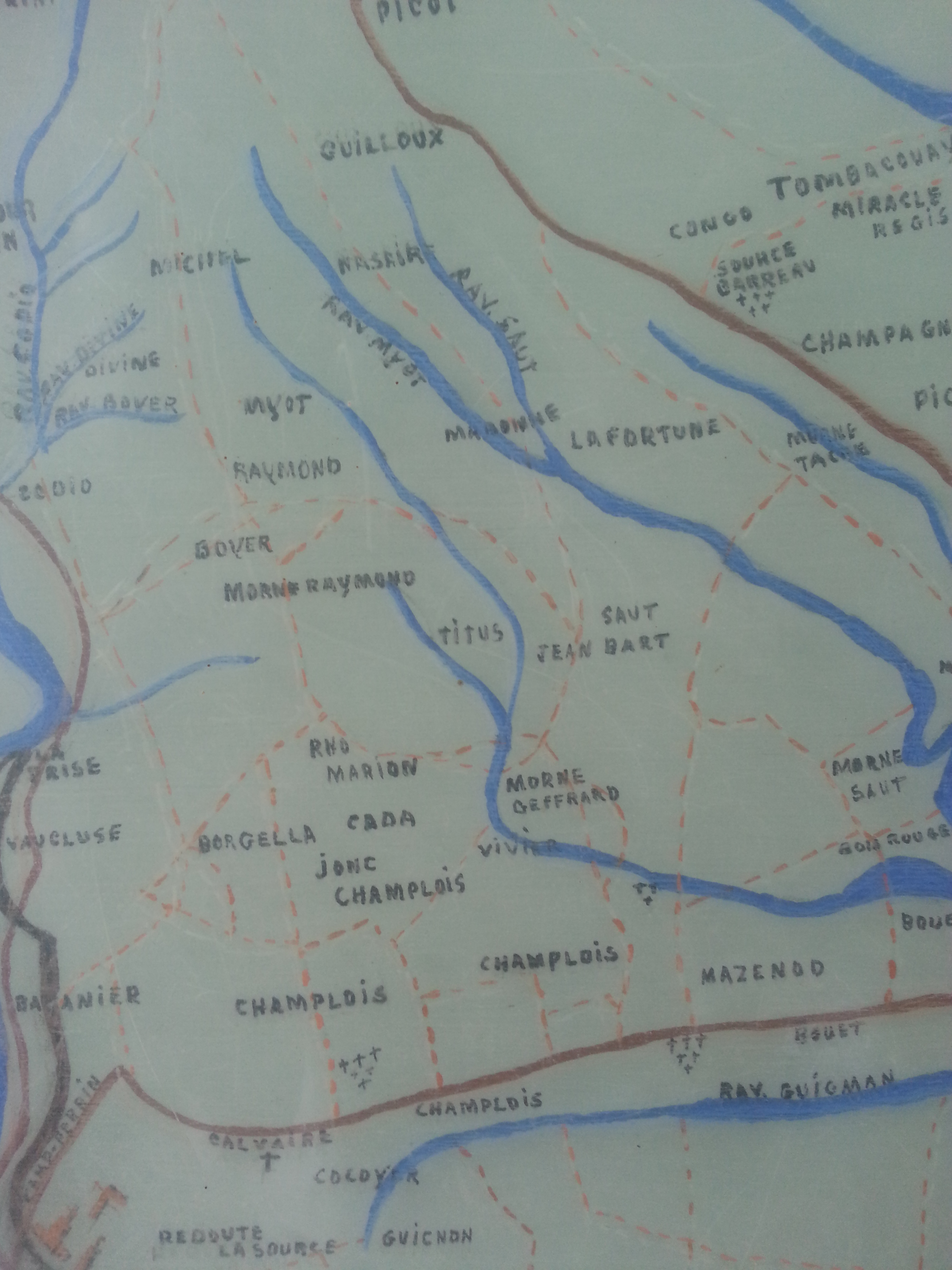 Picture